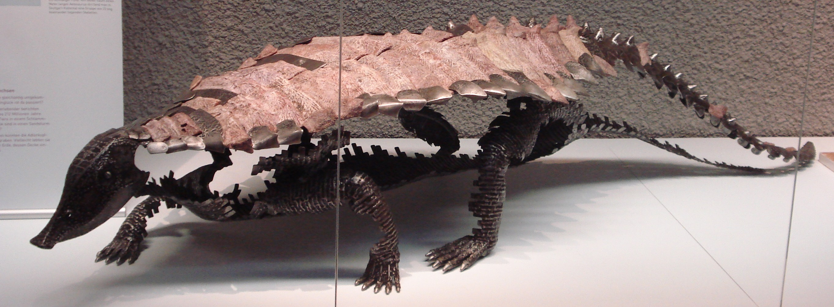 Fossil of Paratypothorax